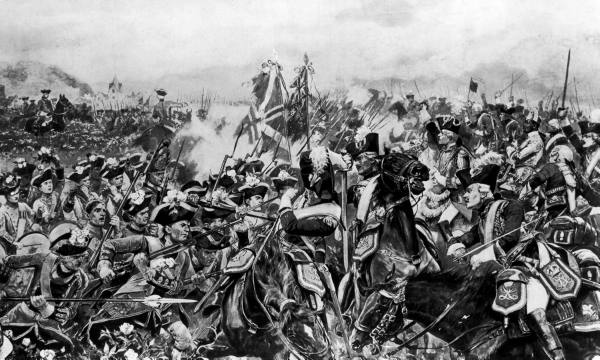 Old illustration showing showing the 20th Foot (Lancashire Fusiliers) in combat against French Cavalry during the Battle of Minden 1759.